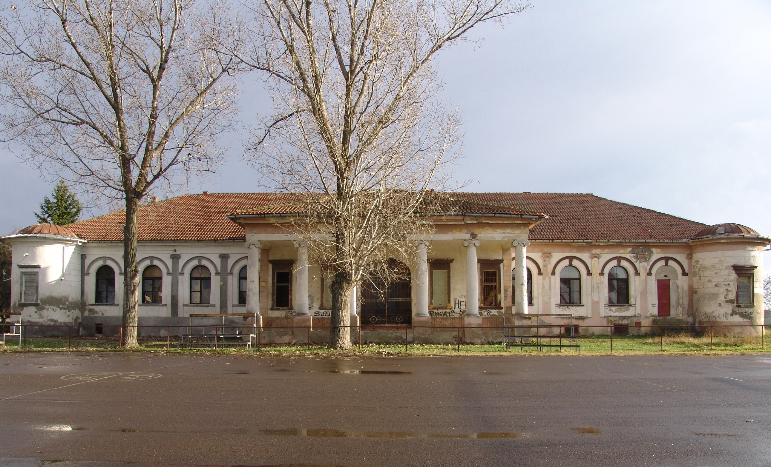 Hertelendy-Bajić castle in Bočar - yard facade